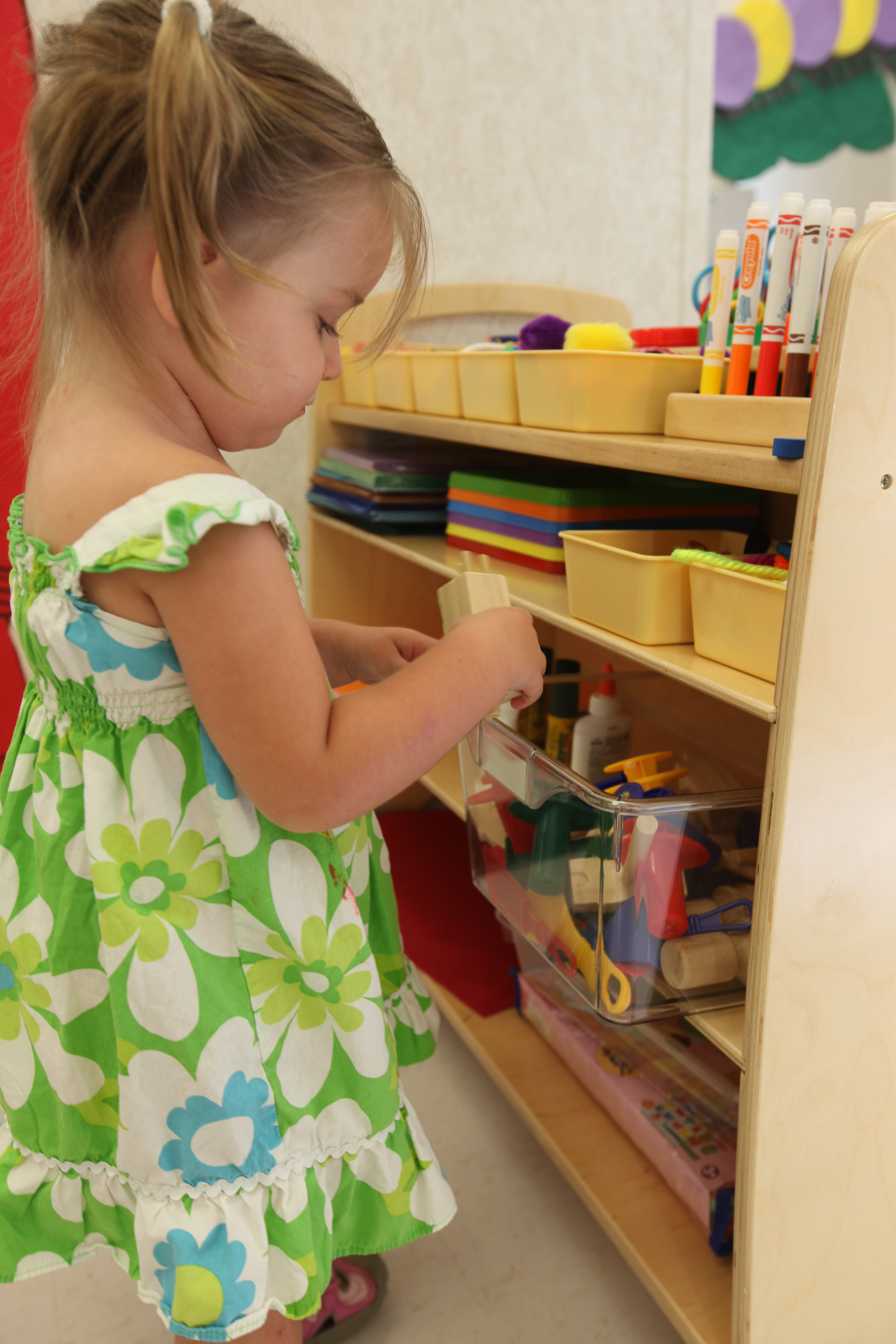 Madison Martin, a 2-year-old in the Toddler 1 Classroom at the new Hadnot Point Child Development Center plays in the art section of the room. She curiously digs through a box of toys looking for treasure.